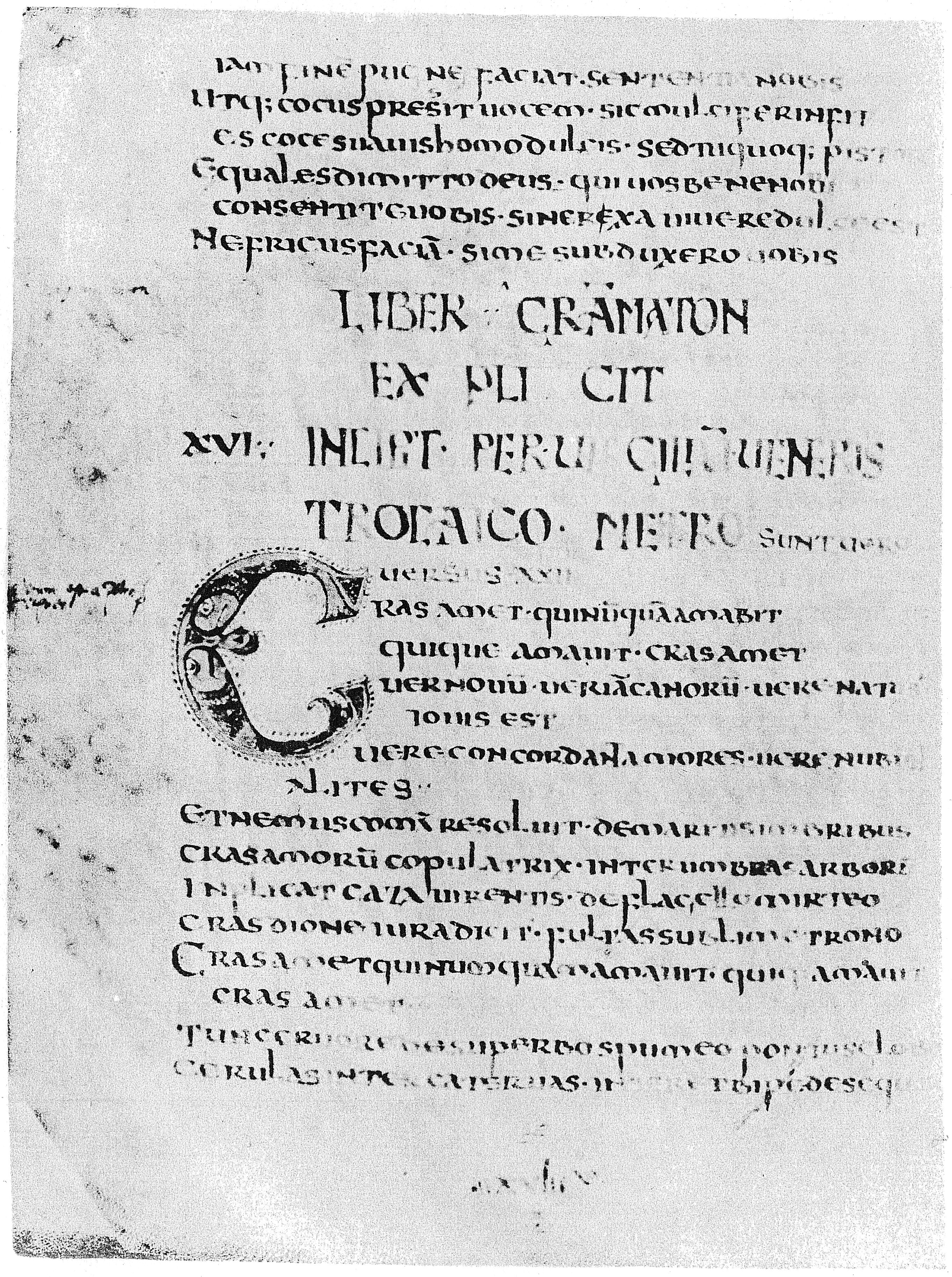 The 1st text page of the Pervigilium Veneris in codex S, the famous Codex Salmasianus. In addition to the inscriptio (headline) INCIPIT PERUIGILIU(m) UENERIS (“here begins the Vigil of Venus”) there are two additional notes of the copyist before the text of the poem: TROCAICO METRO (“in trochees”). sunt vero versus xxii (“there are 22 verses/stanzas/poems”). The meaning of this note is much disputet, because actually the Pervigilium has 93 verses. The note has stimulated some proposals to rearrange the text of the Pervigilium into 22 stanzas, because versus may also mean “stanzas”. But as Riese already explained in his edition of the Anthologia Latina (1894), the versus xxii may just refer to the 22 poems in this section of the Anthologia Latina or of the Codex Salmasianus resp., because versus may also mean “poems”. Cf. the number “XVI” before the inscriptio which also seems to refer to a section or book of the complete anthology, not to the single poem (see Riese, Praefatio to his edition, pp. xxi–xxii). At the left of the initial C, there is a marginal note that reads (according to Clementi, Pervigilium Veneris, 3rd ed. 1936, p. 32): editum est a Petro / Pithoeo, followed by a big $-like mark. According to Clementi (ibd.), the $-like mark refers to the correction amabit → amavit in the 1st line of the poem, done by Salmasius or another humanist with the inital S; the rest of the note was added by a lated hand and refers to Pierre Pithou’s editio princeps of the poem in 1577.